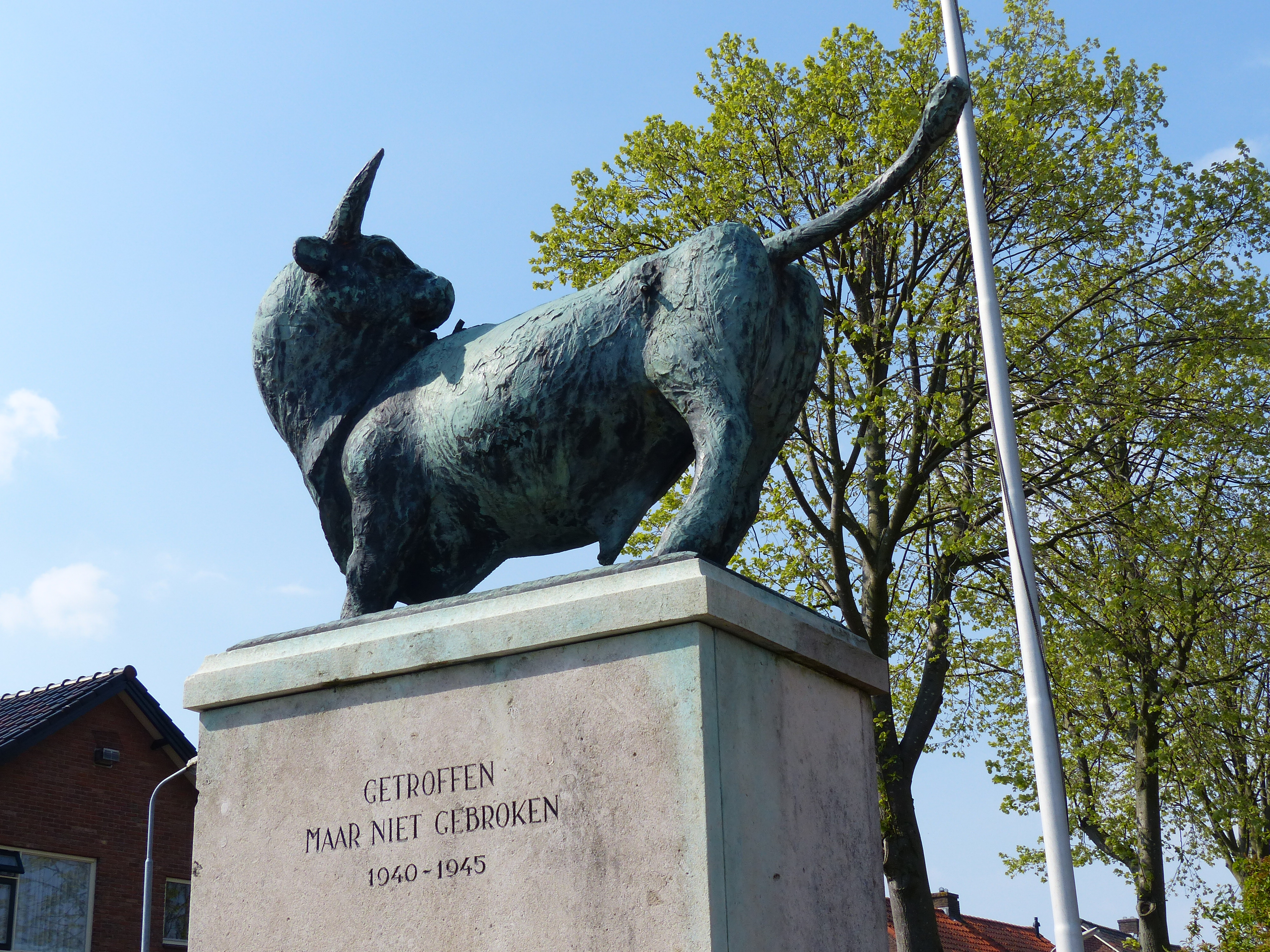 War memorial 'De Stier' in Noord-Scharwoude